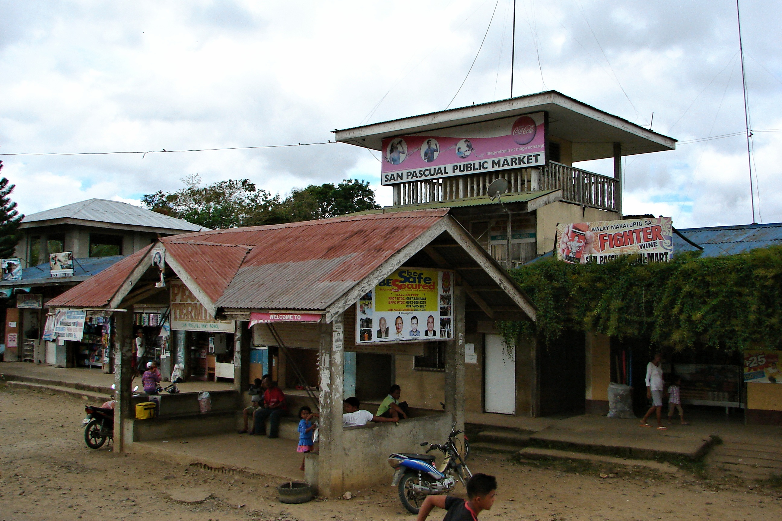 Barangay San Pascual, Ubay, Bohol, Philippines